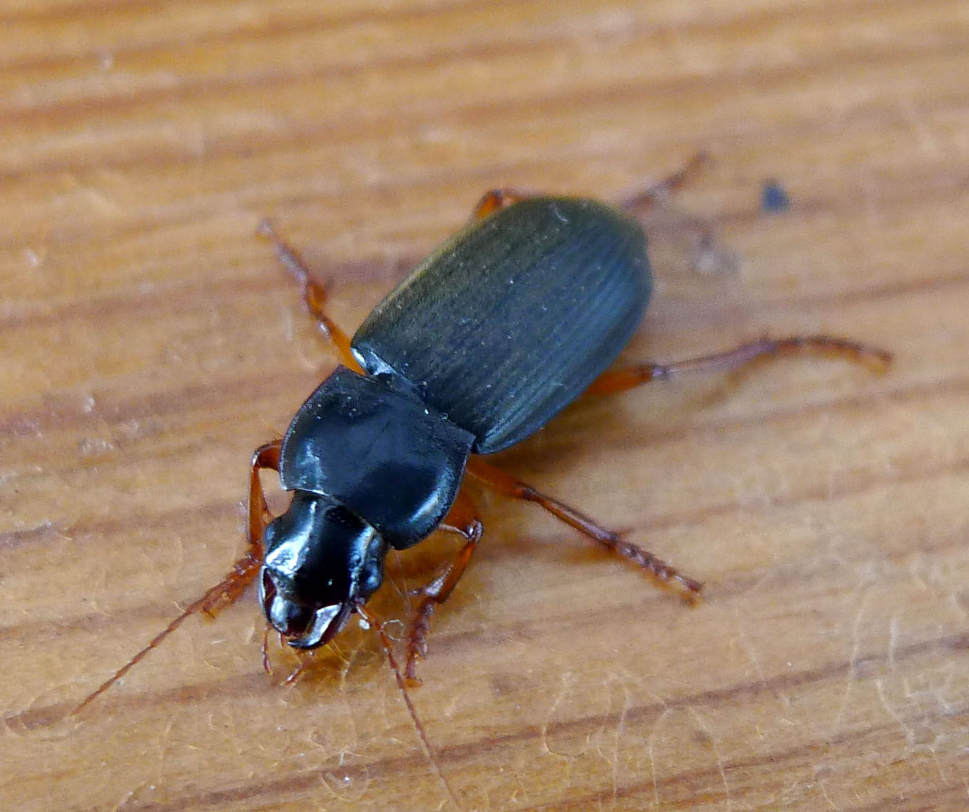 Cradley, Malvern, Worcs, SO7347